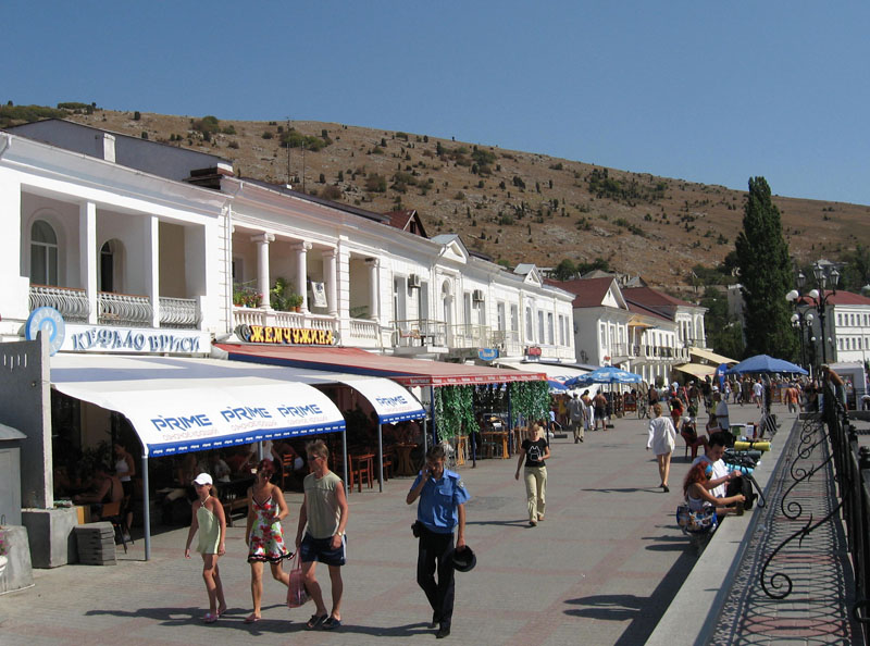 Nazukin quay in Balaclava